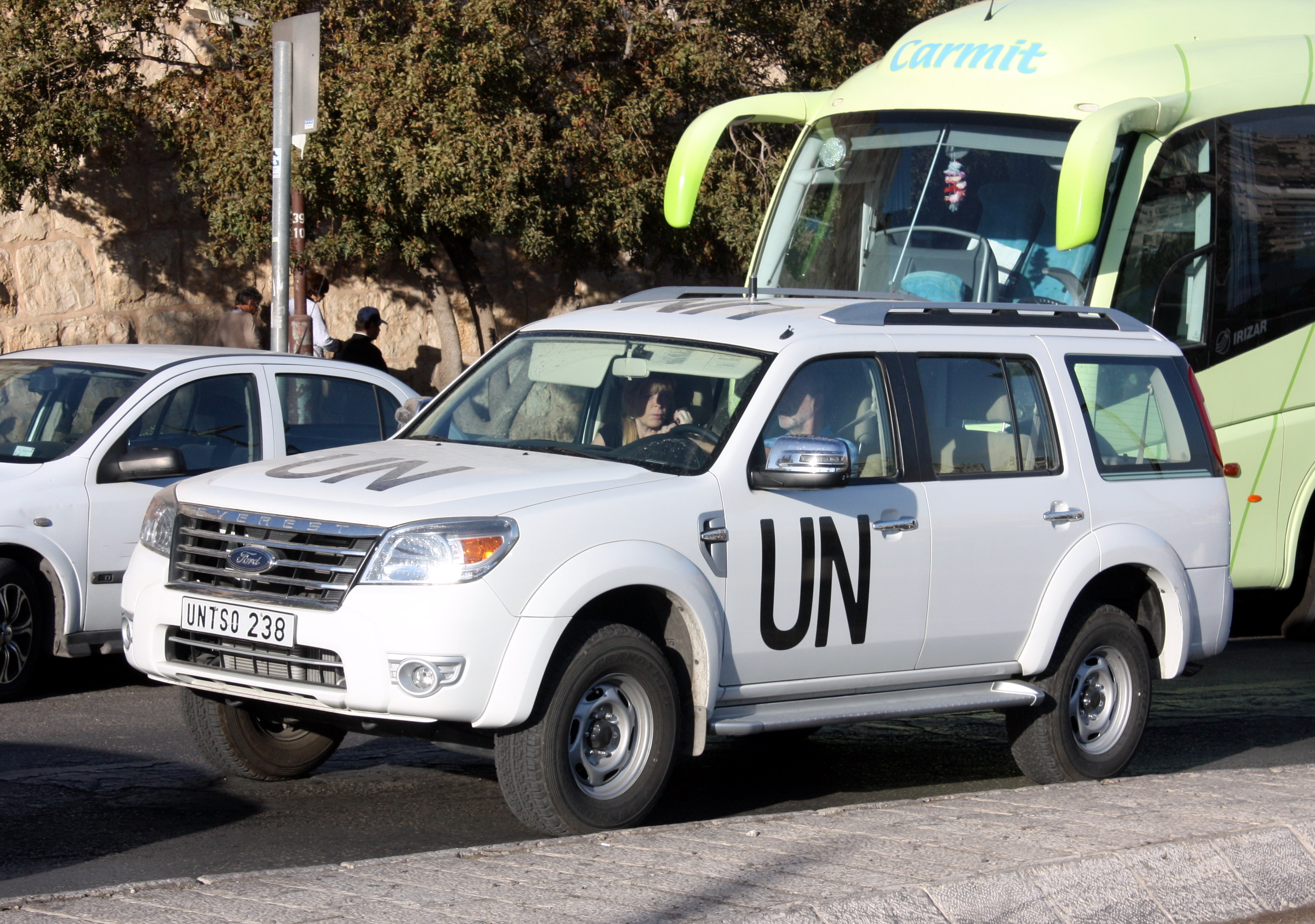 UNTSO vehicle in the streets of Jerusalem, Israel.